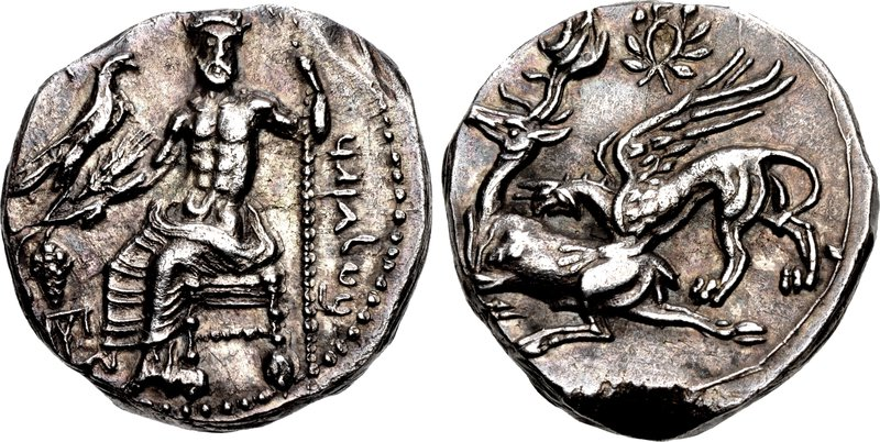 KINGS of CAPPADOCIA. Ariarathes I. 333-322 BC